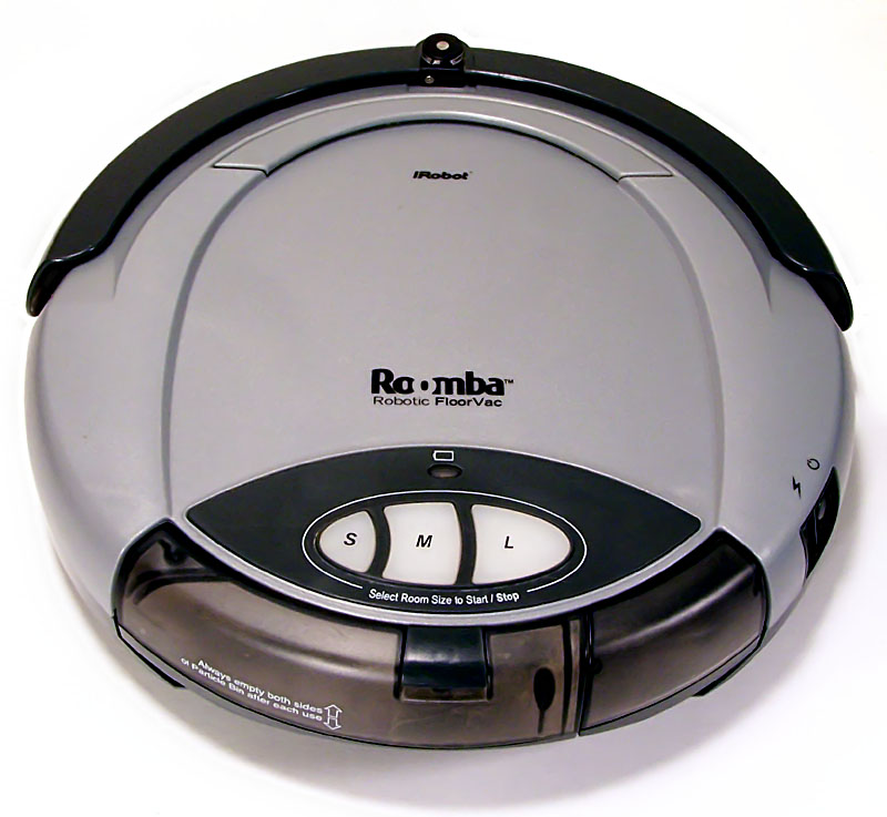 First generation Roomba (Roomba is a trademark of iRobot).